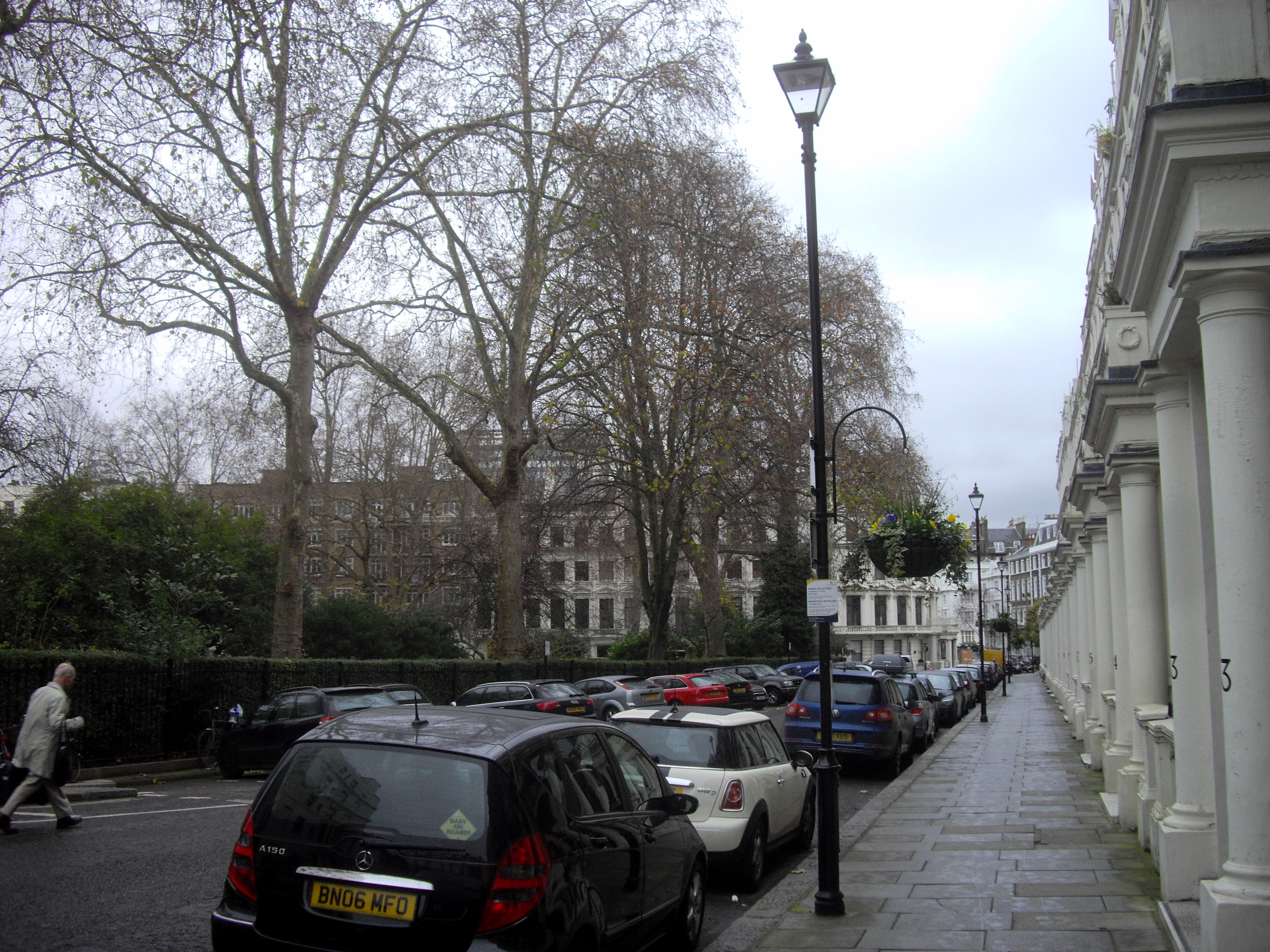 Cleveland Square, Bayswater.